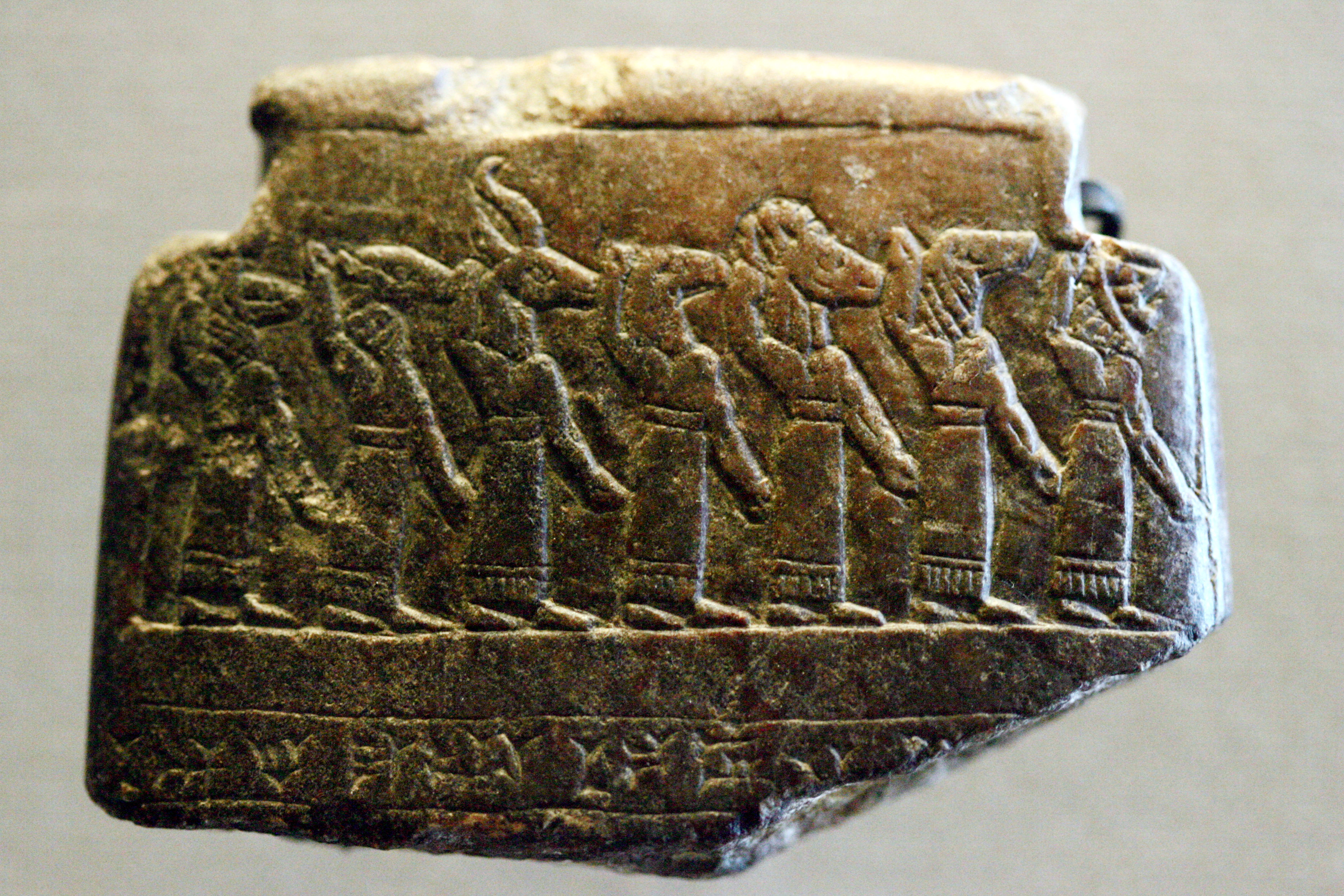 ArtistUnknownDescription Protection plaque against Lamashtu (fragment) [1] Neo-Assyrian era Stone Dimensions6.40 cm high, 8.40 cm wide, 1.20 cm deepCurrent location (Inventory)Louvre Museum Native nameMusée du LouvreLocationParisCoordinates48° 51′ 37″ N, 2° 20′ 15″ E Established1793Website control : Q19675 VIAF: 257711507 ISNI: 0000 0001 2260 177X ULAN: 500125189 LCCN: n80020283 NLA: 35912436 WorldCat Richelieu, Rez-de-chaussée, Mésopotamie - Syrie du Nord. Assyrie : Til Barsip, Arslan Tash, Nimrud, Ninive, Salle 6. Dislay 4.Accession numberAO 2491Source/PhotographerRama Protection plaque against Lamashtu (fragment) [1] Neo-Assyrian era Stone